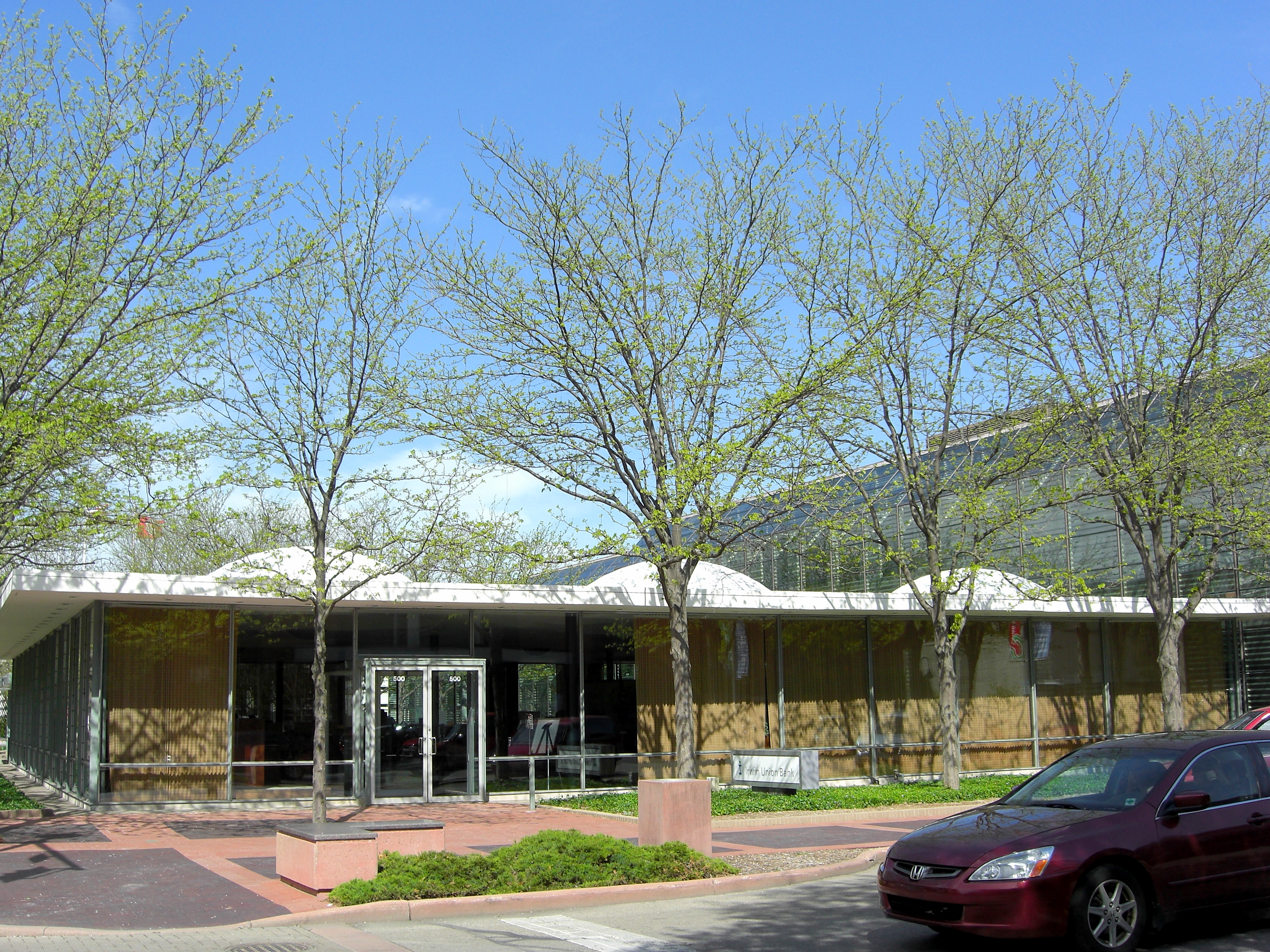 Outside the Irwin Union Bank and Trust